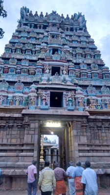 Andarkovil sornapurisvarartemple ஆண்டார்கோயில்சொர்ணபுரீஸ்வரர்கோயில்